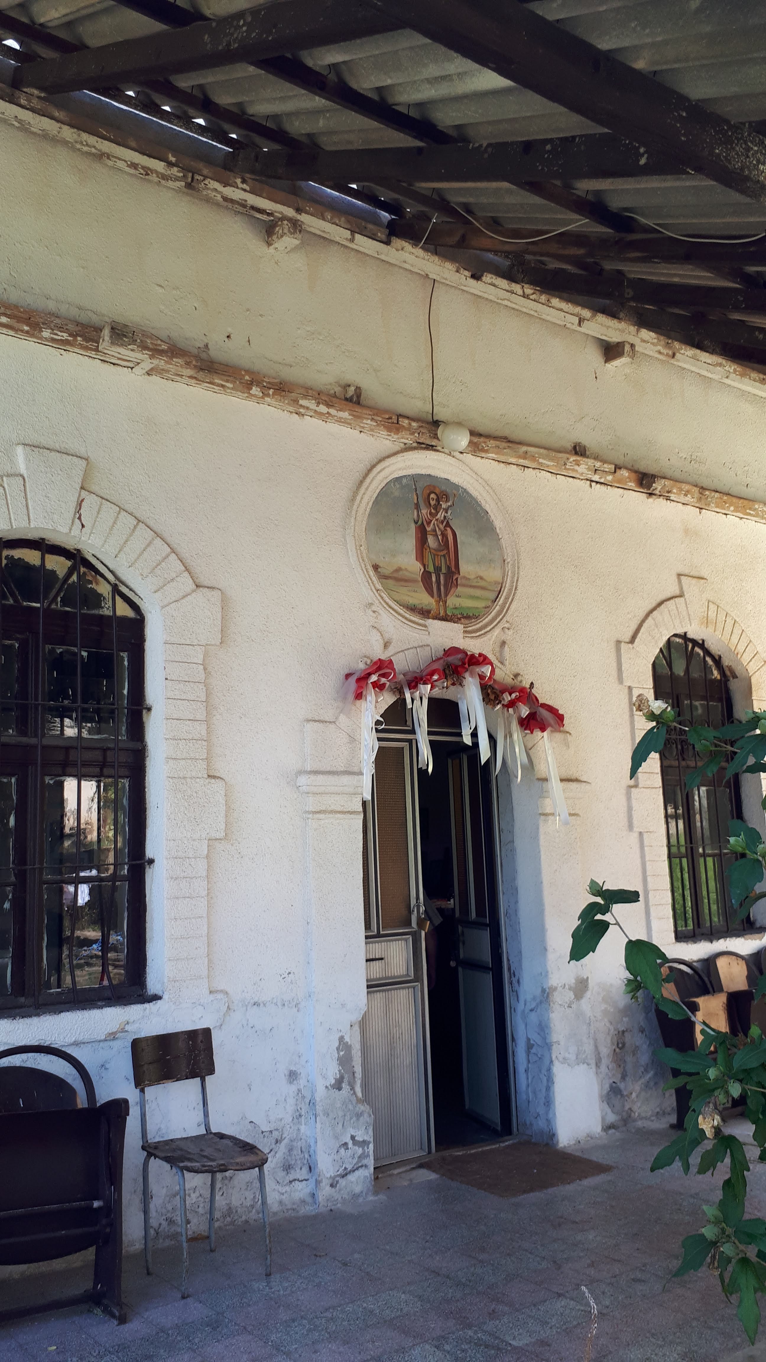 View of the St. Christopher Church in the village Krstoar